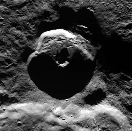 Jiménez crater on Mercury. MESSENGER Wide Angle Camera image. North is at top. Width is approximately 53.4 km at bottom. Emission Angle: 0.2 Incidence Angle: 81.9 Latitude: 81.8 Longitude: 208.1 Phase Angle: 81.8